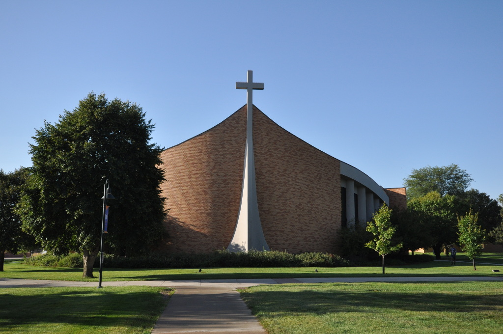 Dakota Wesleyan University, Mitchell, South Dakota. The main chapel.